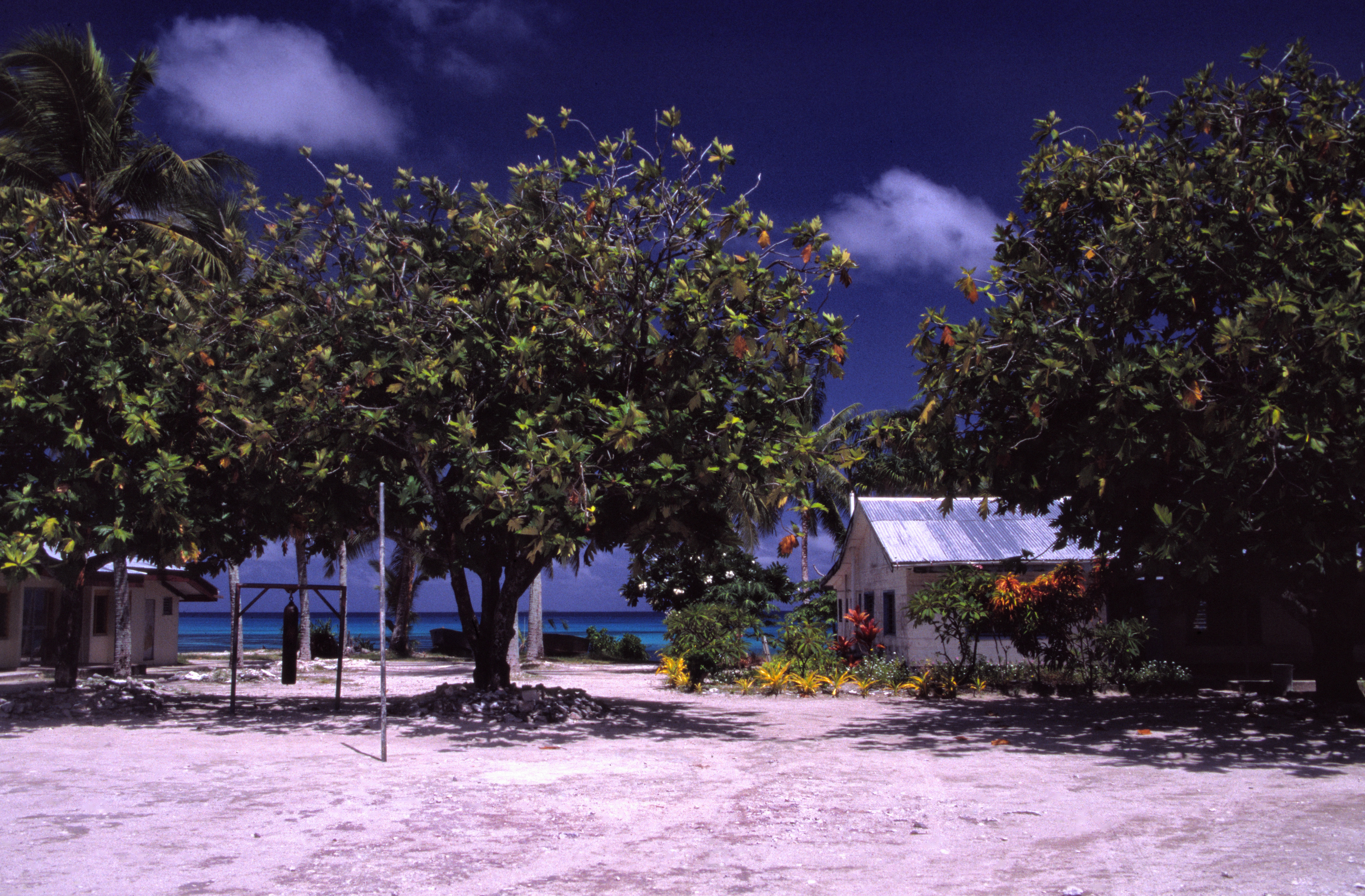 School on Funafuti Atoll, Tuvalu.